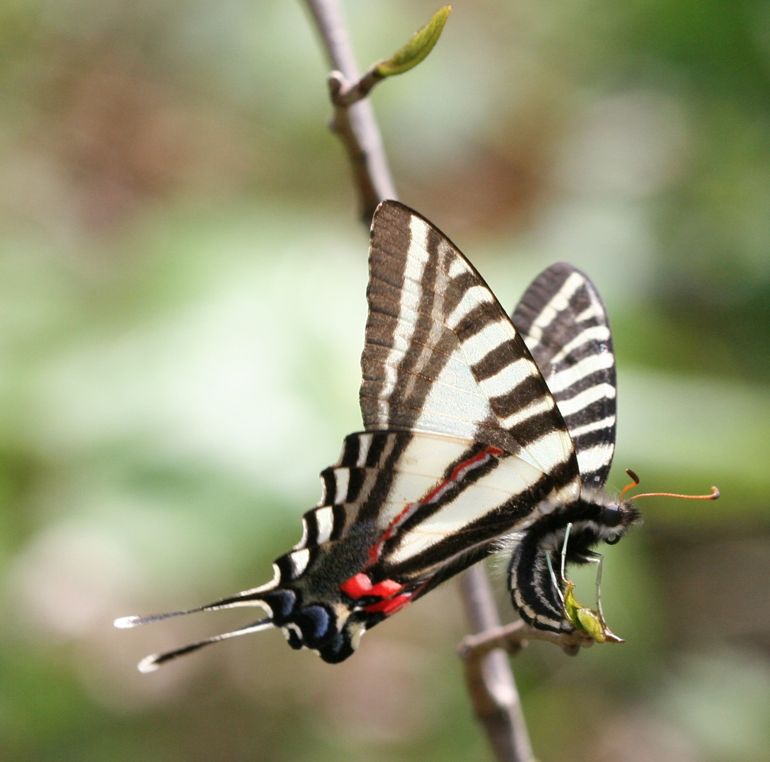 A female Zebra Swallowtail (Eurytides marcellus) laying an egg on Common Pawpaw (Asimina triloba)